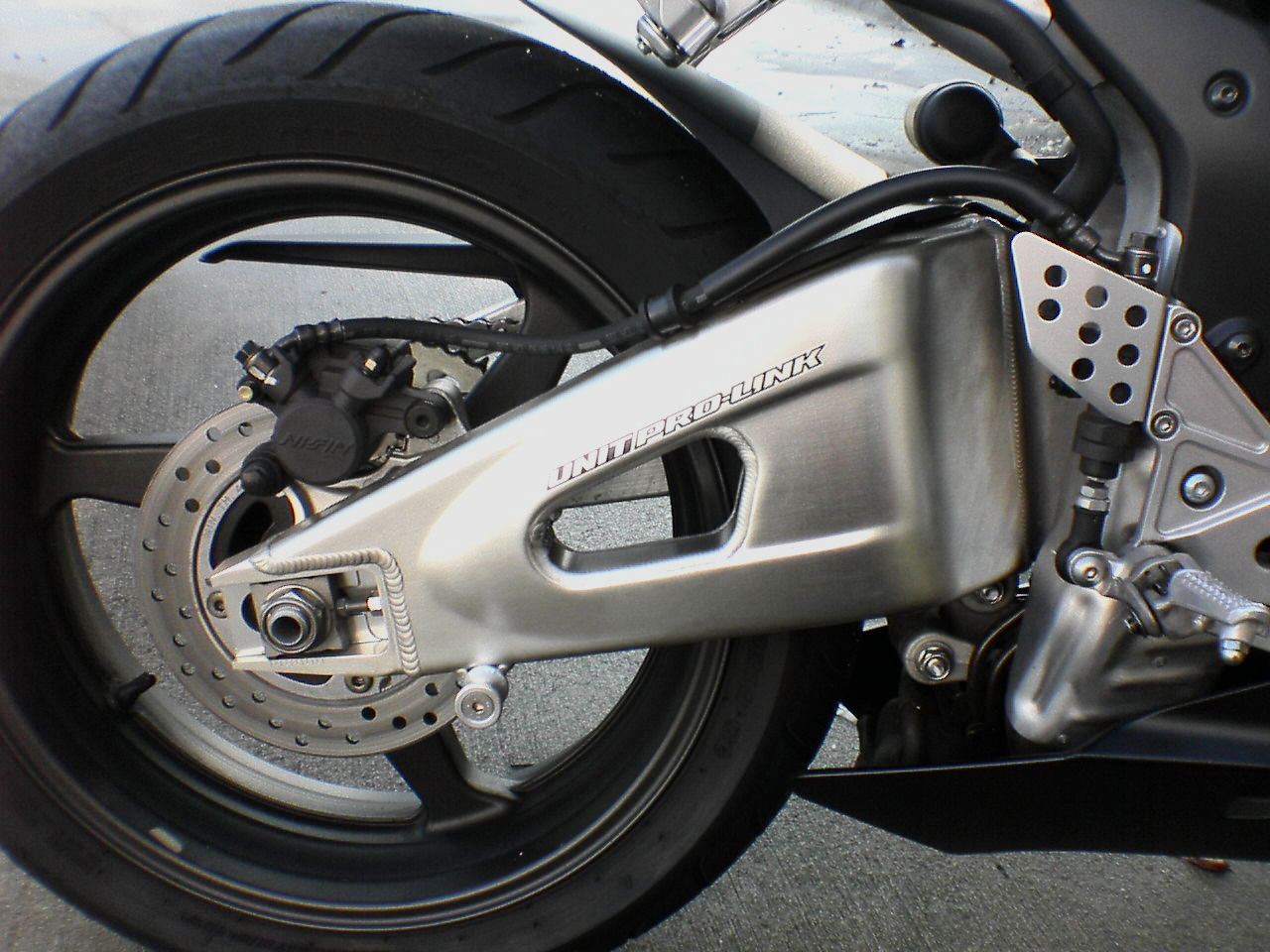 Unit Pro-Link swingarm from a 2006 Honda CBR600RR. The camera used is a Sony Ericsson S710a.